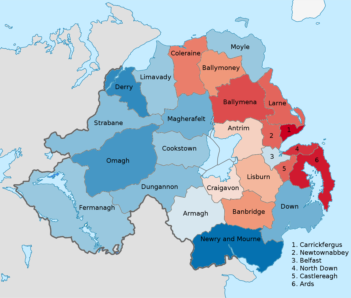 A map of Northern Ireland districts colour coded according to the difference between the percentage of people stating they were Protestant and the percentage of people stating they were Catholic in the 2011 census. Legend: 55% to 60% more Catholic than Protestant 50% to 55% more Catholic than Protestant 45% to 50% more Catholic than Protestant 40% to 45% more Catholic than Protestant 35% to 45% more Catholic than Protestant 30% to 35% more Catholic than Protestant 25% to 30% more Catholic than Protestant 20% to 25% more Catholic than Protestant 15% to 20% more Catholic than Protestant 10% to 15% more Catholic than Protestant 5% to 10% more Catholic than Protestant 0% to 5% more Catholic than Protestant 0% to 5% more Protestant than Catholic 5% to 10% more Protestant than Catholic 10% to 15% more Protestant than Catholic 15% to 20% more Protestant than Catholic 20% to 25% more Protestant than Catholic 25% to 30% more Protestant than Catholic 30% to 35% more Protestant than Catholic 35% to 40% more Protestant than Catholic 40% to 45% more Protestant than Catholic 45% to 50% more Protestant than Catholic 50% to 55% more Protestant than Catholic 55% to 60% more Protestant than Catholic